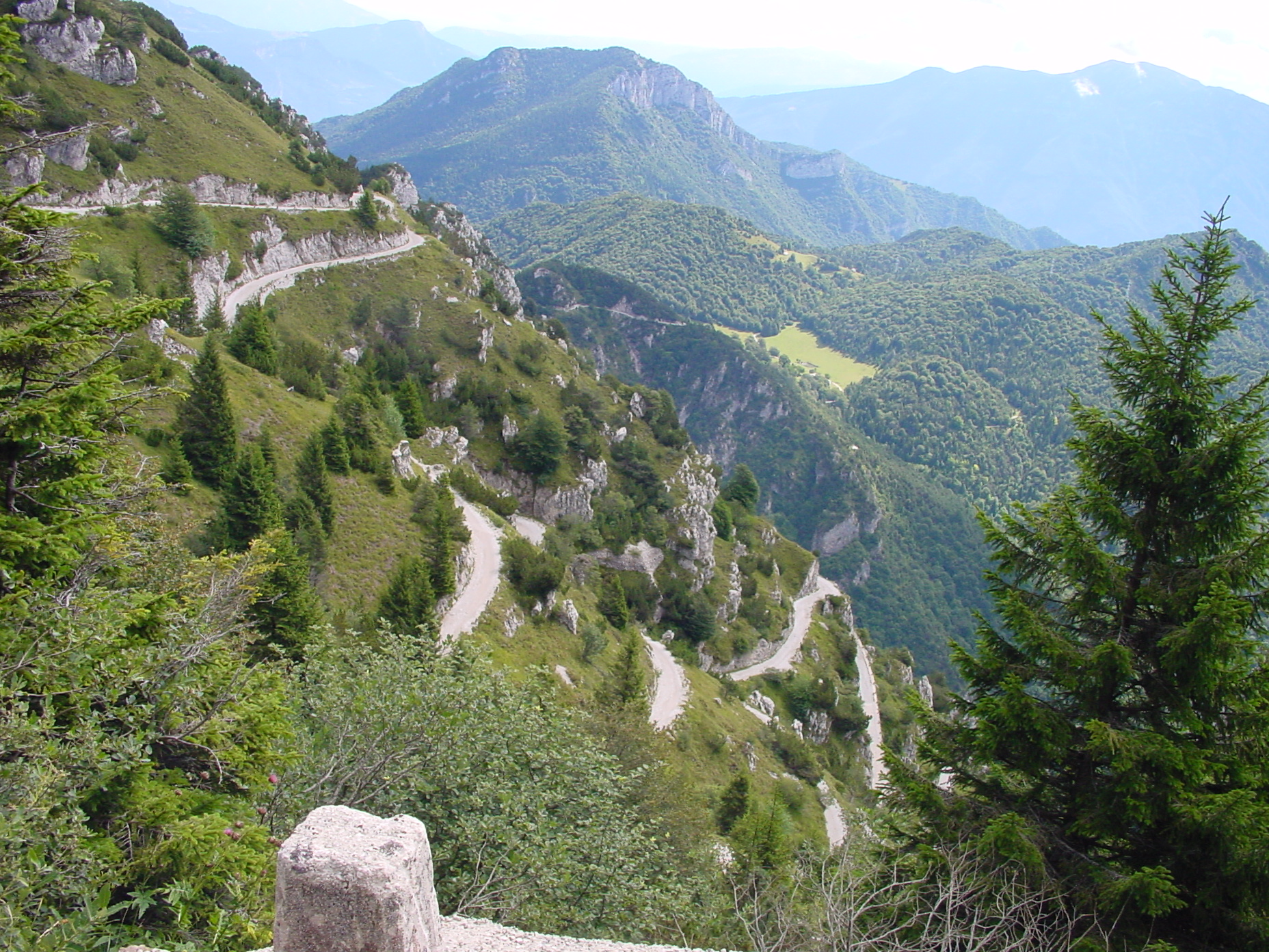 The south part of Tremalzo pass.